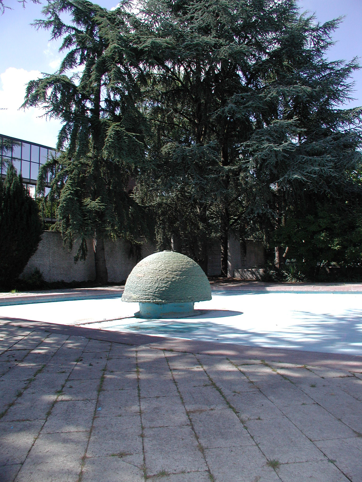 Cologne, fountain at "Rheinpark" Deutz